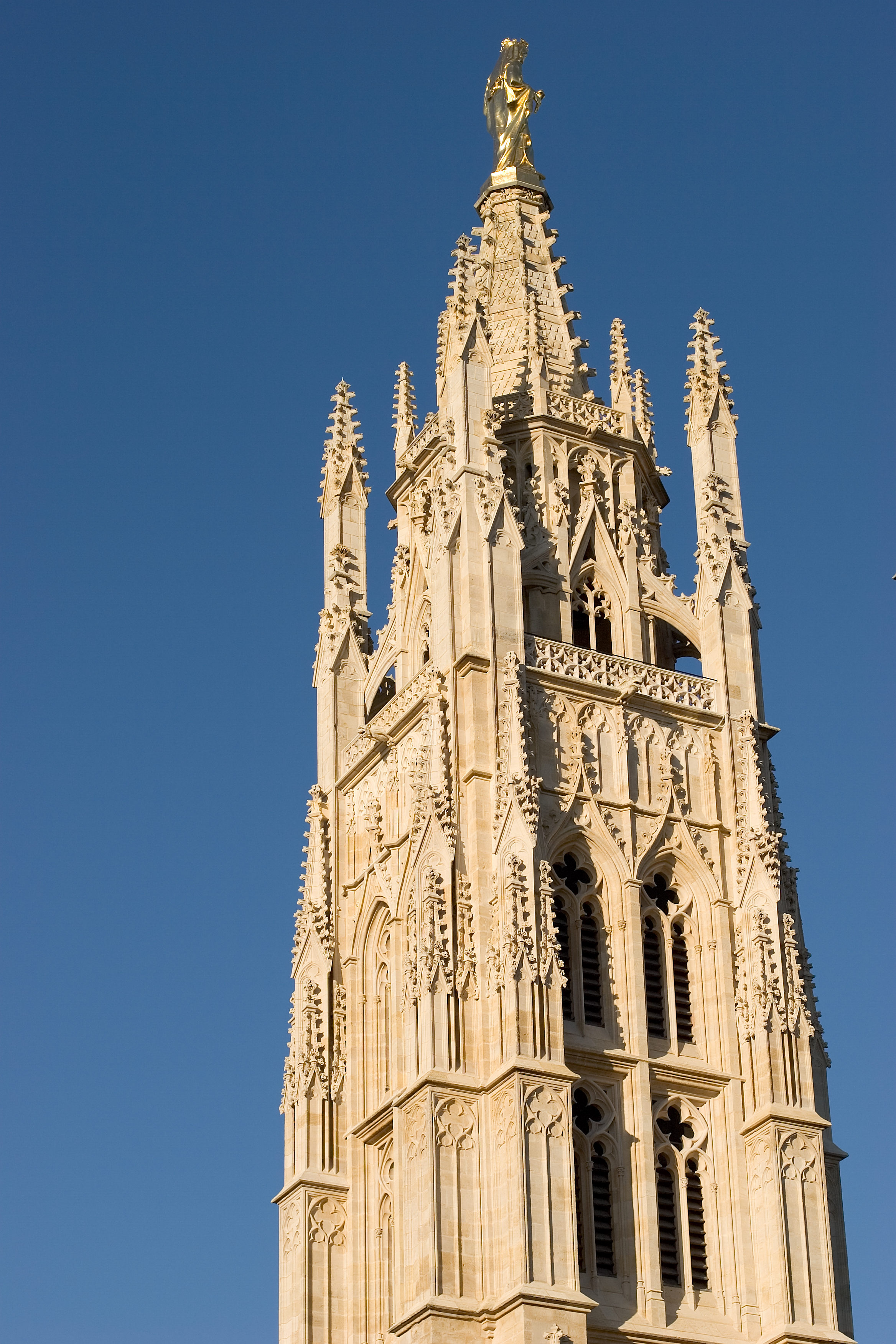 South-East view of Pey Berland tower near Saint-André Cathedral in Bordeaux, France.